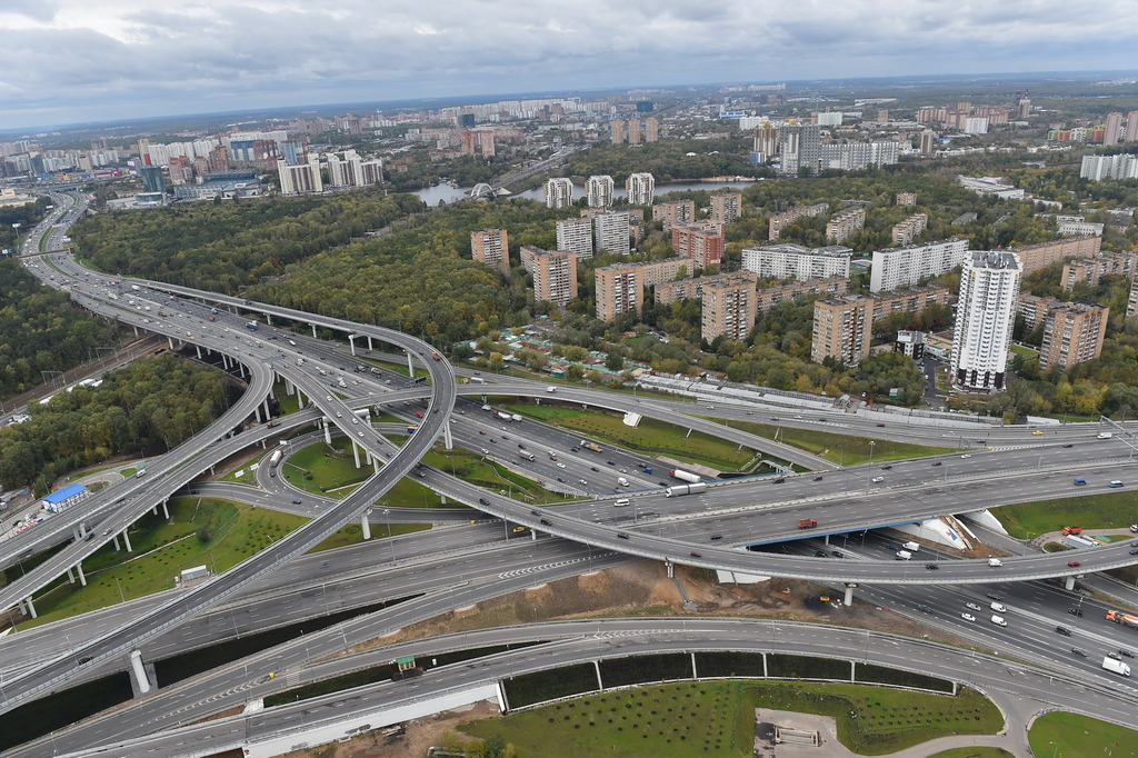 Interchange of MKAD.